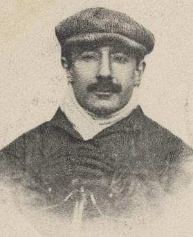 Aviator who made history in South Africa